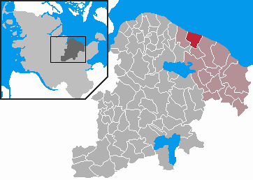 This map shows the area of the Gemeinde (municipality) Hohenfelde in the Kreis (district) Plön, Schleswig-Holstein, Germany.